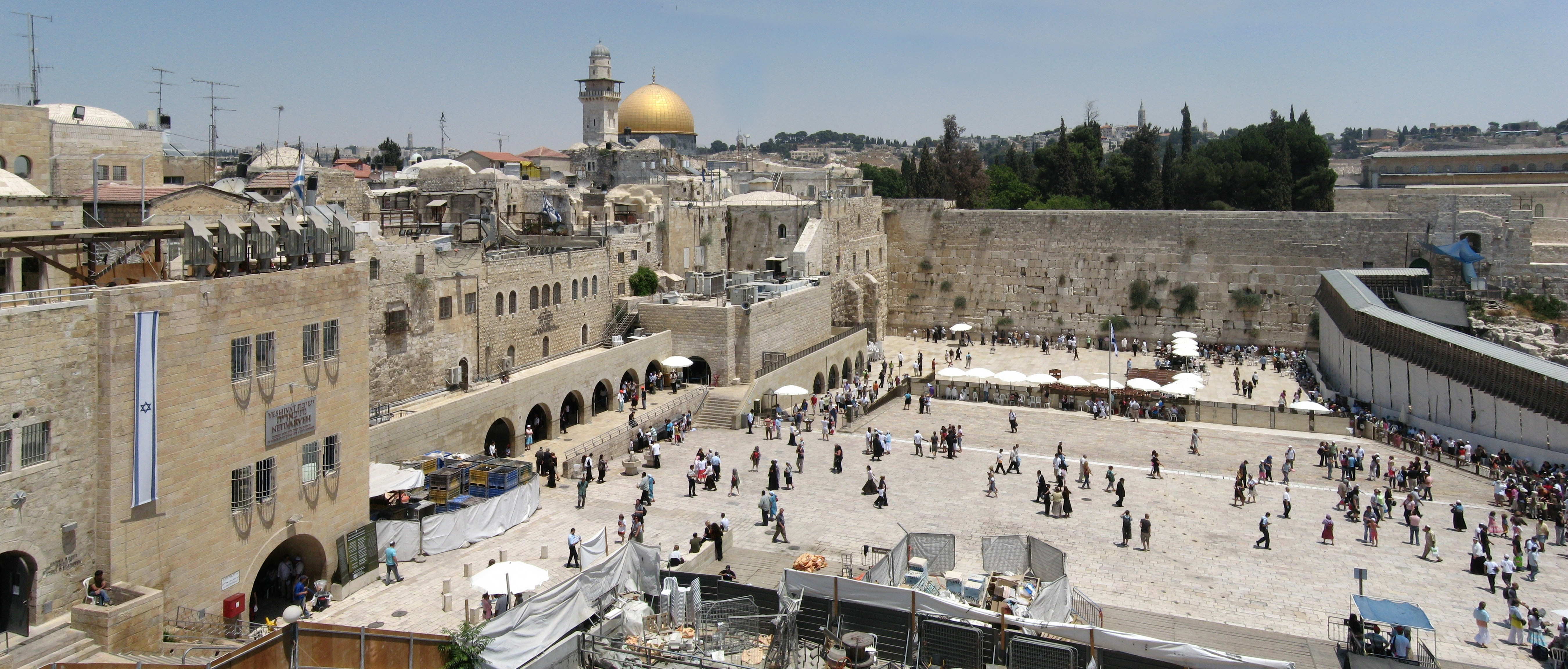 View on the Dome of the Rock